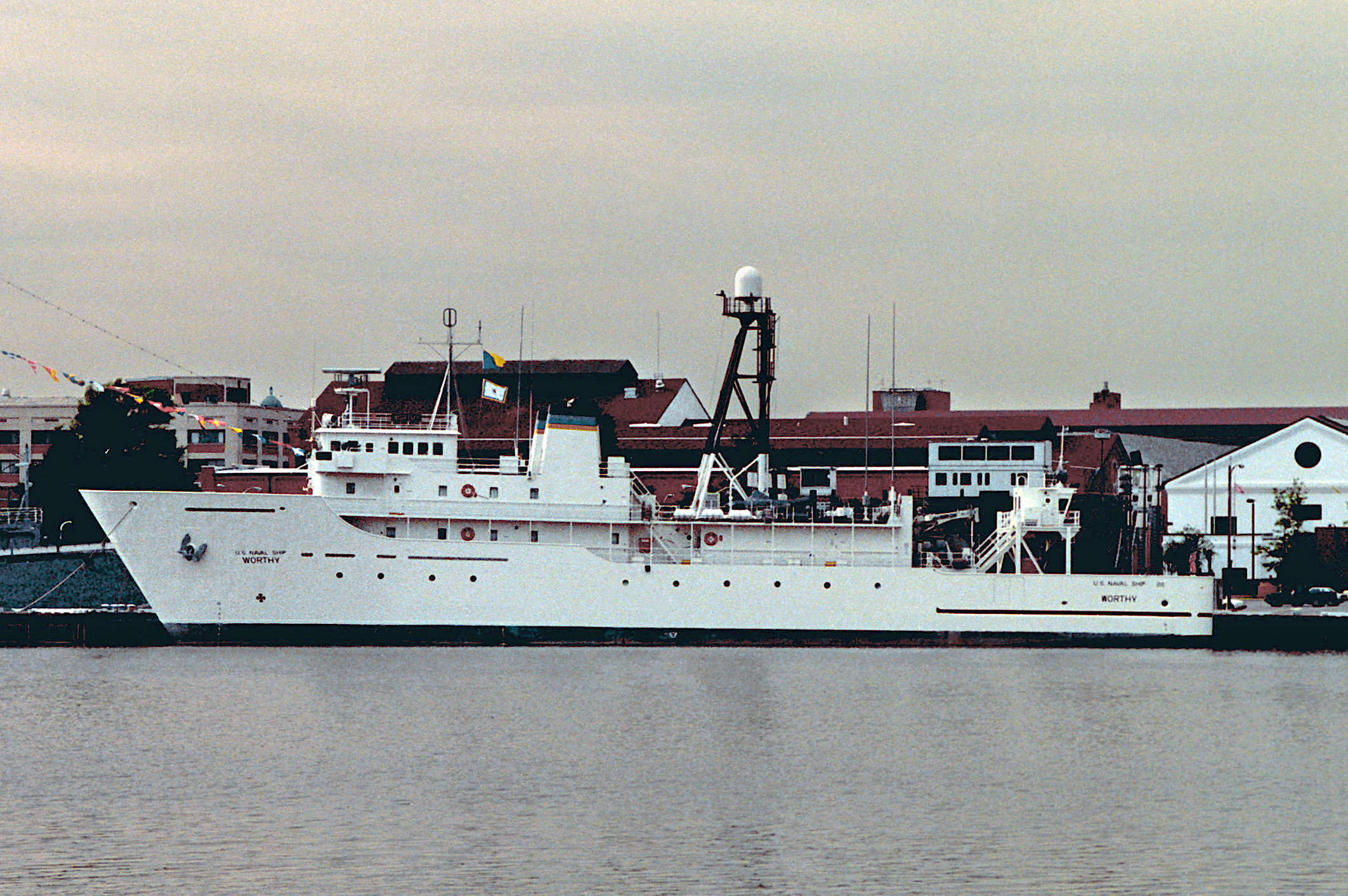 A port beam view of the ocean surveillance ship USNS WORTHY (T-AGOS-14) at pier 1 of the Washington Navy Yard.Location: ANACOSTIA RIVER, DISTRICT OF COLUMBIA (DC) UNITED STATES OF AMERICA (USA)